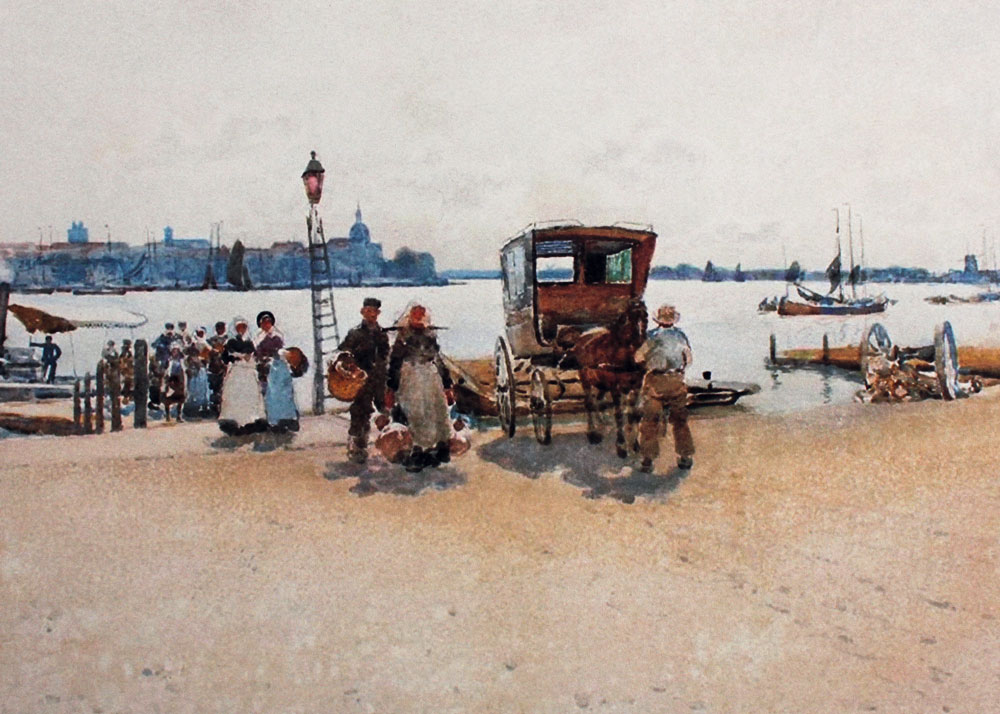 reproduction of a water-colour painting 1888